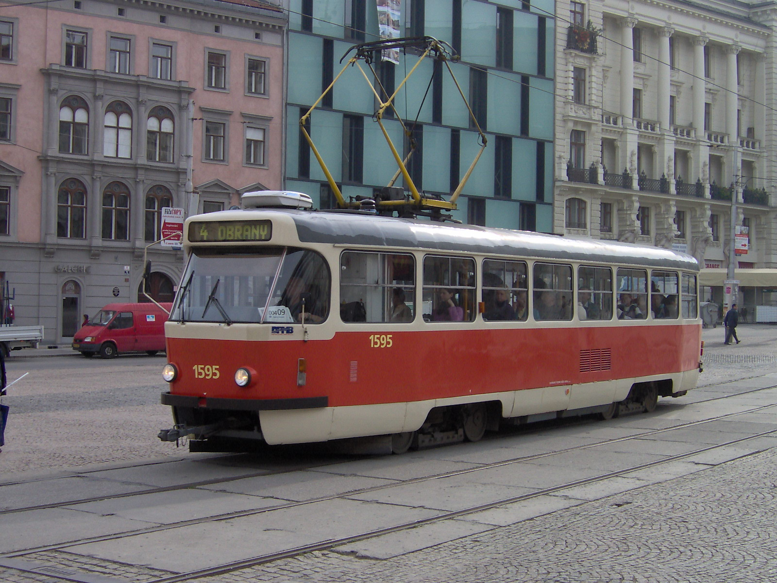 T3R.P tram in Brno